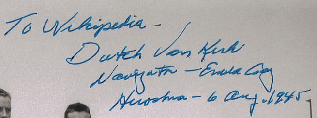 Scan of the autograph of Theodore "Dutch" Van Kirk, navigator of the Enola Gay, dedicated "To Wikipedia", obtained at the Dallas Arms Collectors Association gun and knife show at Dallas Market Hall in Dallas, Texas, on 2010-08-21 at 10:30 a.m. In blue ball point: "To Wikipedia - Dutch Van Kirk Navigator - Enola Gay Hiroshima - 6 Aug 1945" The signature is on copy of an 8"x10" photograph provided by Dutch, which appears to have been taken by an Associated Press photographer. Therefore only the signature has been scanned and uploaded. Appearance of the portions of the photograph are incidental.